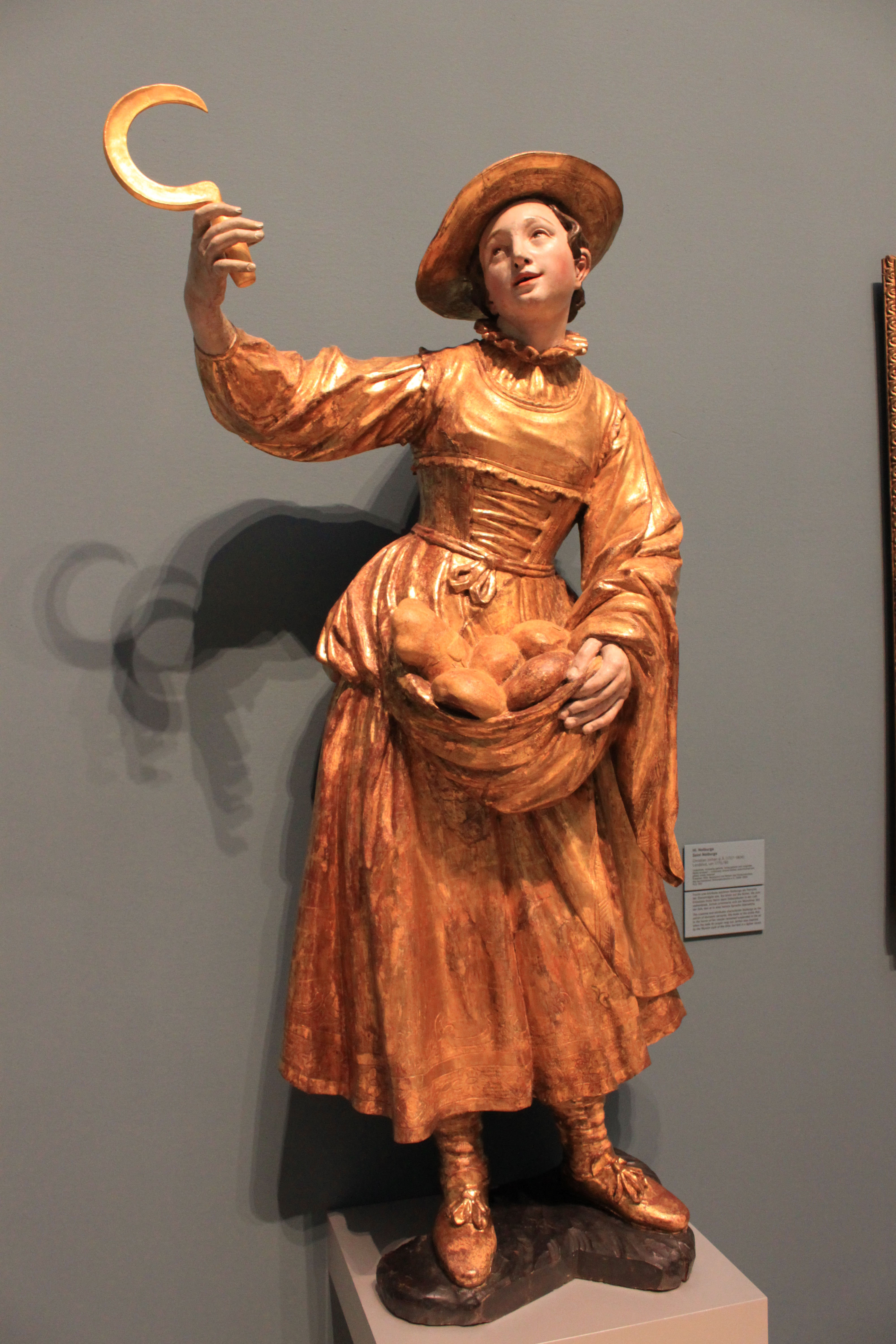 Saint Notburga, Christian Jorhan der Ältere. Limewood, reverse hollow, polychromed and gilded, sickle restored. The costume and attributes characterize Notburga as the patron of domestic servants. She looks at the sickel that to the horror of her master remained suspended in the air when the bells for prayer rang out. Jorhan was inspired by the Munich style of the time, but lent it a lighter touch.